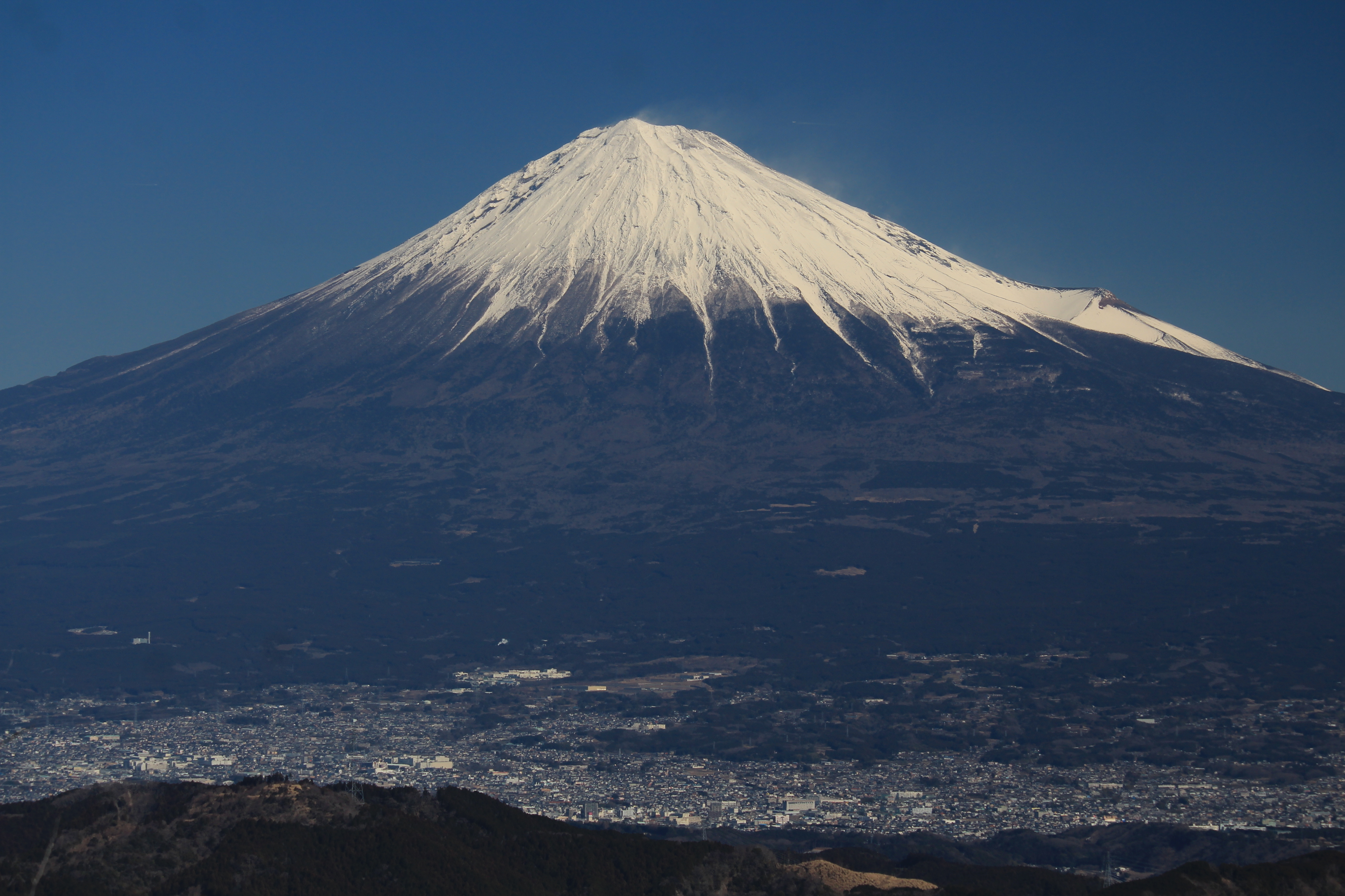 Mount Fuji and Fujinomiya seen from Mount Hamaishi in Shizuoka prefecture, Japan.